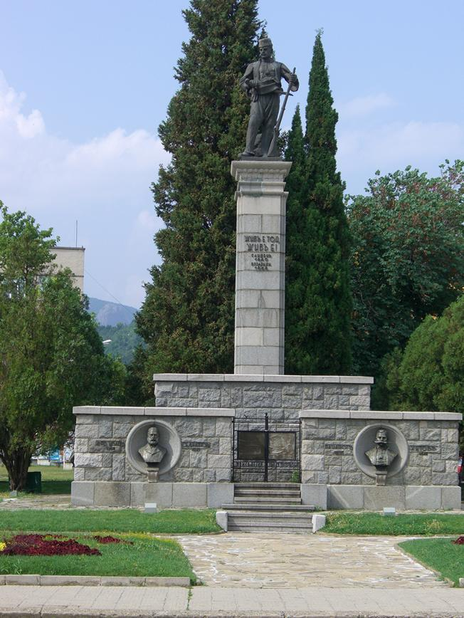 Statue of Hadji Dimitar in Sliven, next to the town hall.